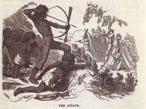 American indians attacking prospectors